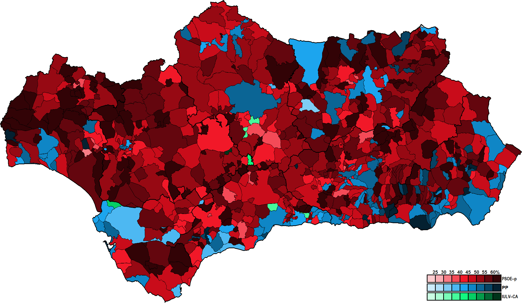 Most-voted party in Andalusia municipalities, showing vote share obtained, in the Spanish general election, 2000.